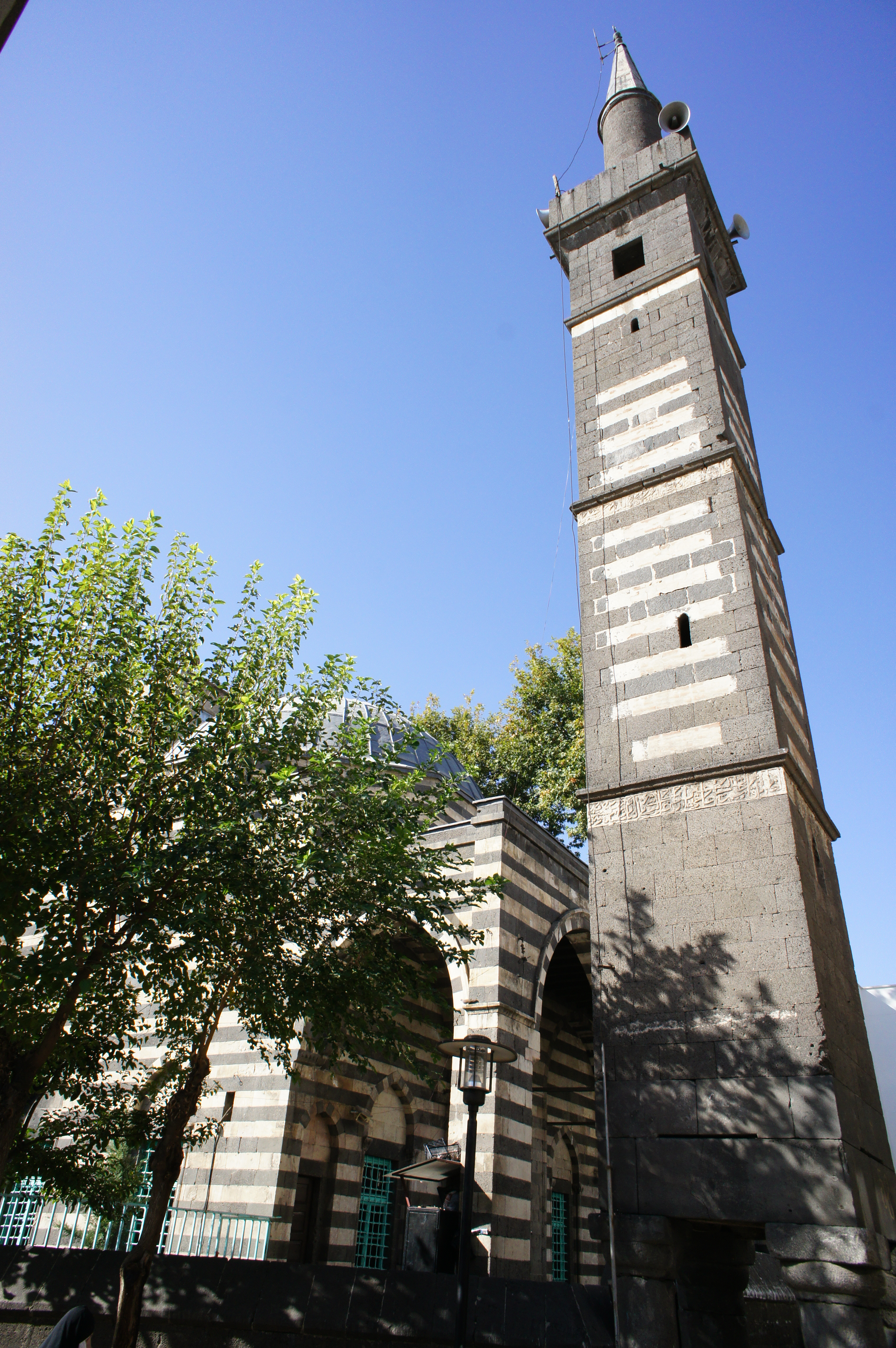 The Four-Pillared Minaret and Sheikh Mutahhar Mosque, Diyarbakır, Diyarbakır Province, Turkey Kurdî: Minareya Çarling û Mizgefta Şêx Matar (Muteher), Amed, Tirkiye